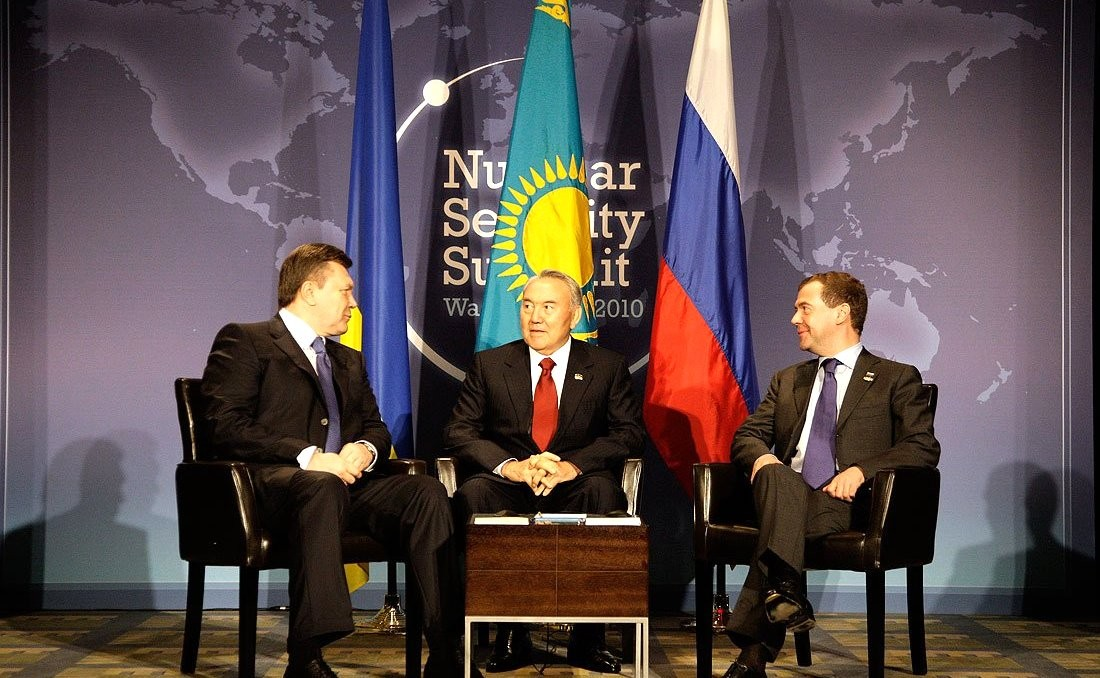 With President of Ukraine Viktor Yanukovych and President of Kazakhstan Nursultan Nazarbayev.